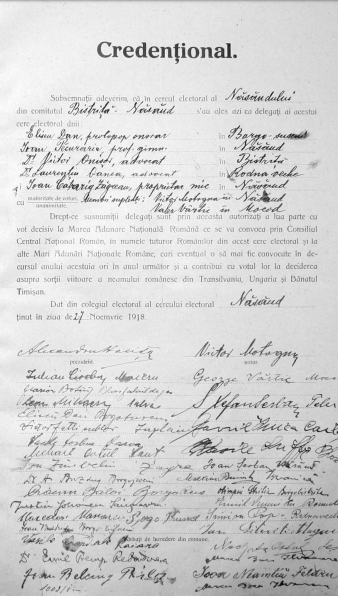 Mandate of the elective circumscription of Năsăud, signed by Victor Motogna,as notary, first in the second column on the down-right side of the document, deputy in the Great National Assembly from Alba Iulia - Romania, 1918Română: Credenționalul cercului electoral Năsăud, semnat de Victor Motogna, în calitate de notar, primul de pe a doua coloană, din partea dreaptă-jos a documentului, deputat în Marea Adunare Națională de la Alba Iulia, 1918